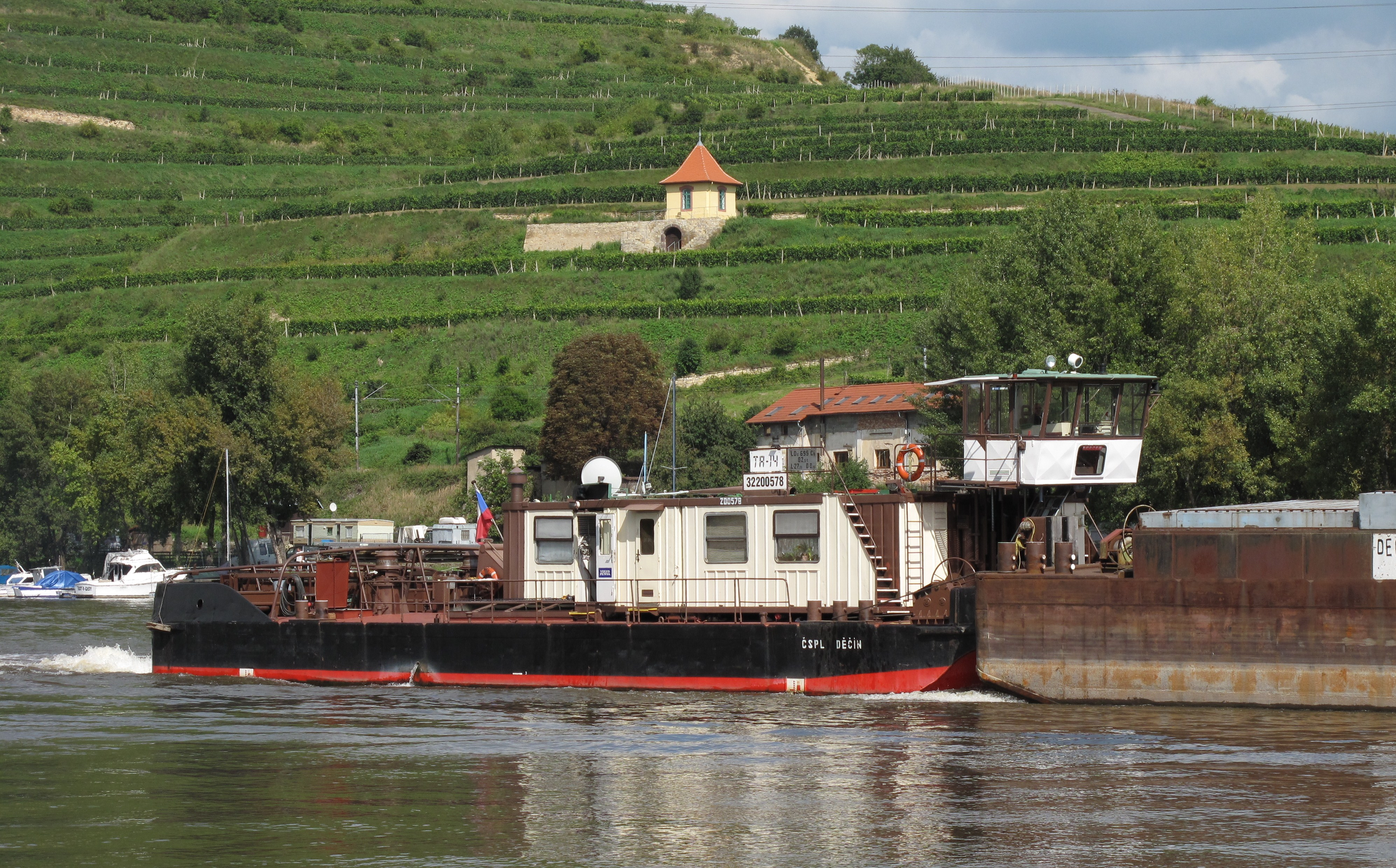 Tugboat of the transportation ship on Elbe near Malé Žernoseky, Litoměřice District, Czech Republic. Žernoseky vineyards in the background under Malá Vendula Hill (239 m).